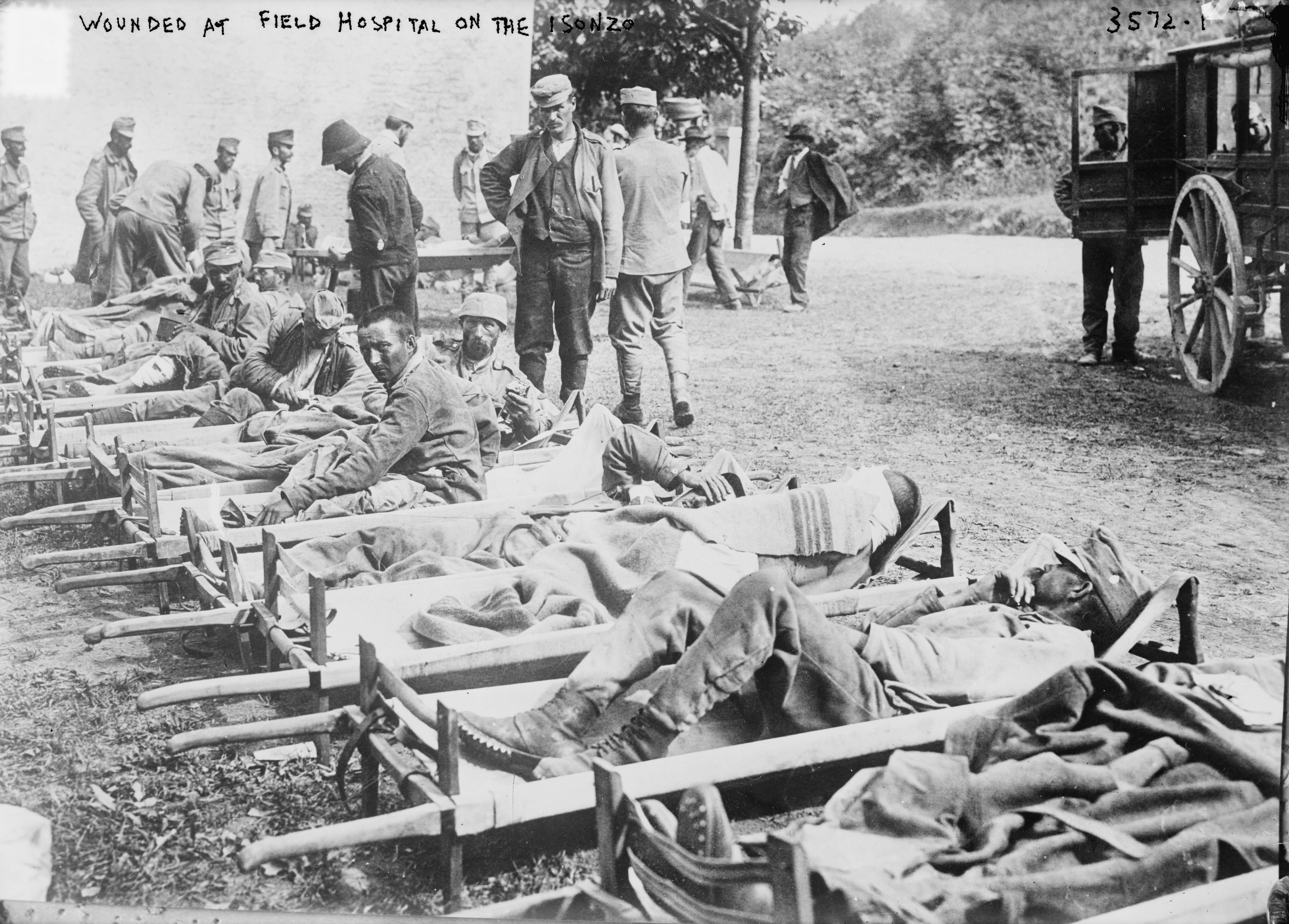 Title: Wounded at Field Hospital on the Isonzo Abstract/medium: 1 negative : glass ; 5 x 7 in. or smaller.